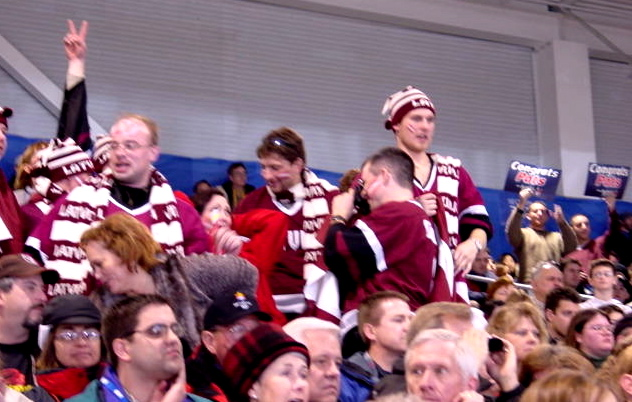 Latvian ice hockey supporters, Winter Olympics, February 9, 2002, Provo UtahAustria vs Latvia